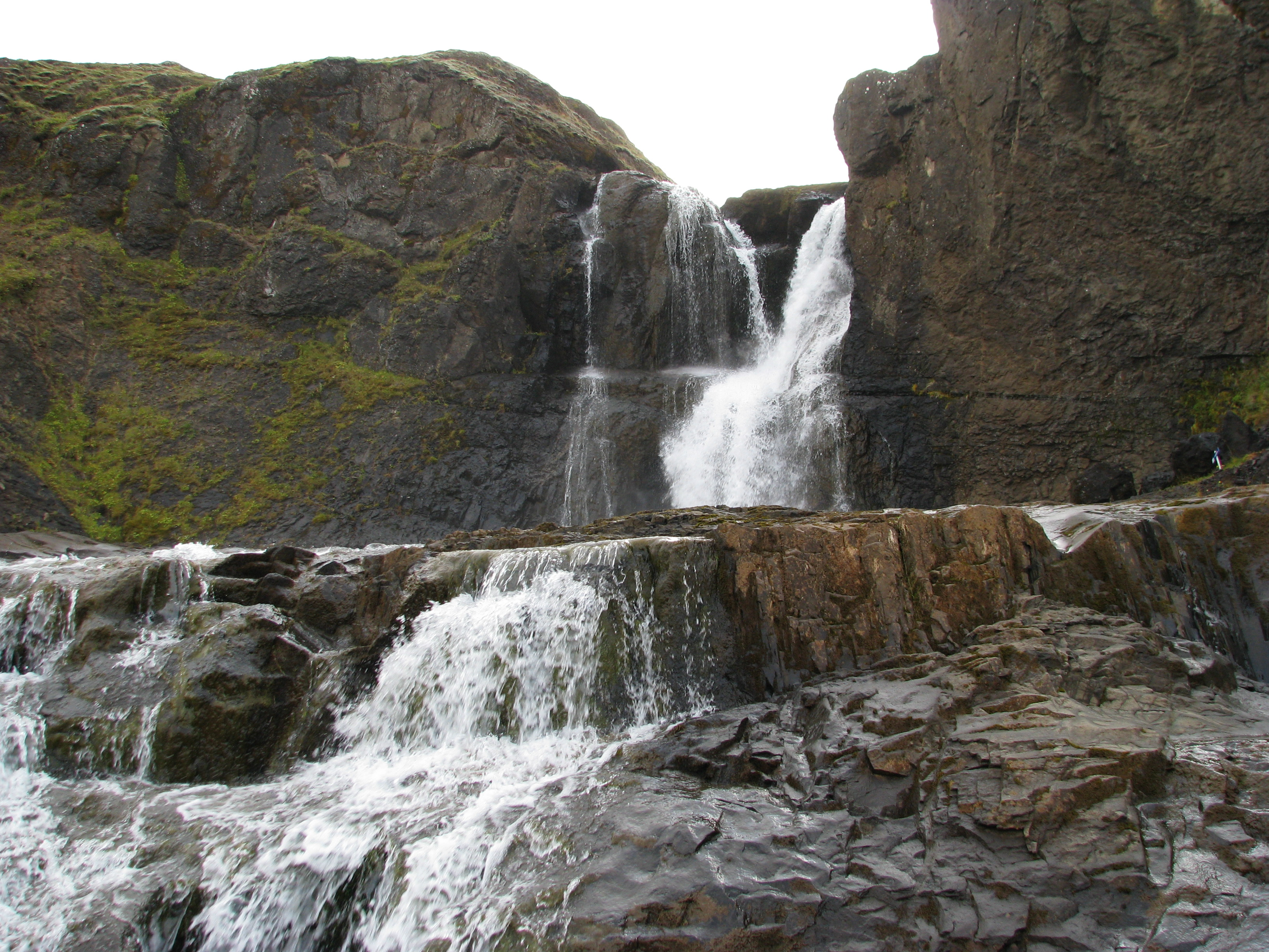 Tröllafoss, a waterfall in Iceland.